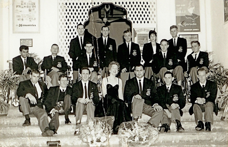 Members of the Australian Paralympic Team pose with an entertainer from the hotel where they stayed in Singapore en route to the 1960 Rome Paralympic Games.